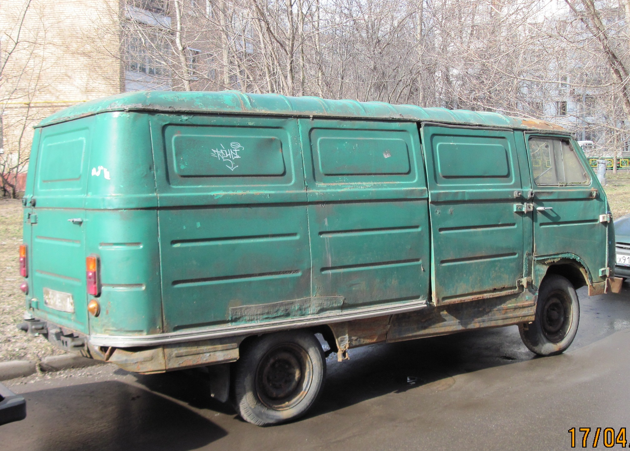 ErAZ-762V (late model of 762 van)